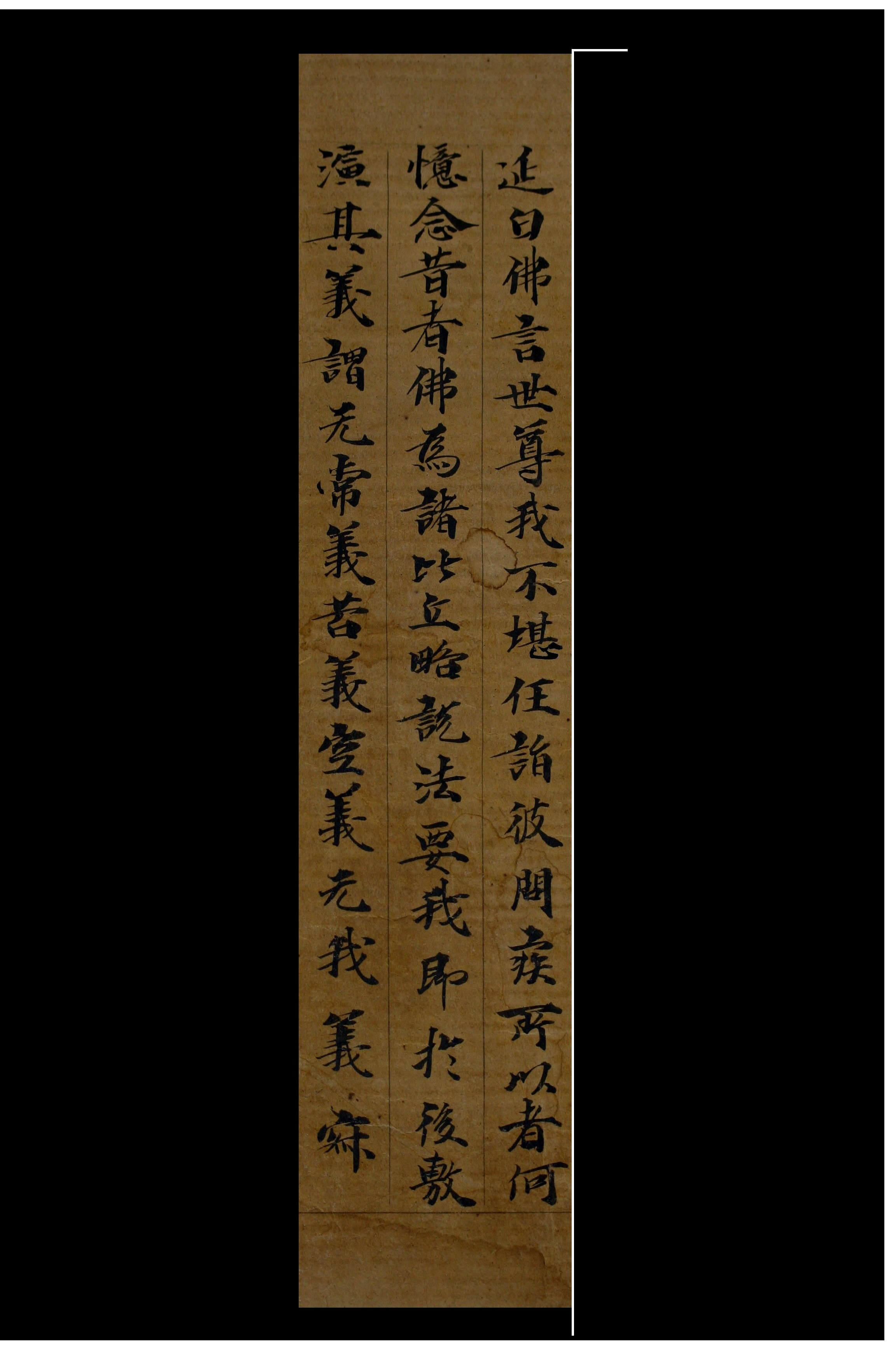 Buddhist Sutra fragment